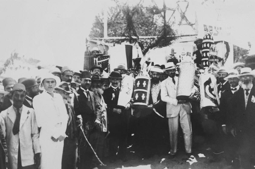 Returning Torah Scrolls to Tel-Aviv, removed after the Ottoman Tel Aviv and Jaffa deportation in 1917